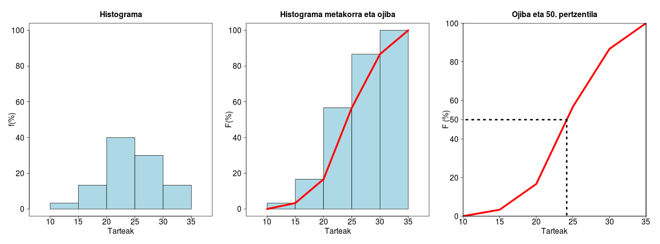 This chart was created with R. Histogram, cumulative histogram, ogive and P(50) quantile estimation. Source code: x=c(20.30975,18.19873,28.53423,25.76547,28.98363,22.13357,24.71114,24.53094,12.28666,24.73473,21.88932,25.88932,31.14394,19.50850,21.93942,31.35156,23.43202,26.73680,18.24004,16.78666,26.45836,23.22566,20.82735,27.54200,32.96702,20.84085,33.86712,23.63435,26.76314,27.63858) hist(x,plot=F) #Histogramaren zenbakizko informazioa eskuratu tarteak=hist(x,plot=F)$breaks #Tarteak soilik eskuratu maizta=hist(x,plot=F)$counts #Maiztasun absolutuak soilik eskuratu maizte=(maizta/30)*100 #Maiztasun erlatiboak kalkulatu maizte maiztemet=cumsum(maizte) #Maiztasun erlatibo metatuak kalkulatu maiztemet png(filename = "maiztasun_metatuen_histograma_ojiba_002.png", width=1350, height=500) par(mar=c(5,5.3,4,2),oma=c(1,1,1,1)) #Irudiko marjin egokiak zehaztu par(mfrow=c(1,3)) #Hiru grafiko irudi berean (hiru zutabe, errenkada bat) library(agricolae) graph.freq(tarteak,counts=maizte,las=1,ylim=c(0,100),cex.main=2,cex.lab=2,cex.axis=2,main="Histograma",col=c("lightblue"),xlab="Tarteak",ylab="f(%)") #Maiztasun bakunen histograma maiztemet=cumsum(maizte) #Maiztasun metatu erlatiboak kalkulatu graph.freq(tarteak,counts=maiztemet,ylim=c(0,100),las=1,cex.main=2,cex.lab=2,cex.axis=2,main="Histograma metakorra eta ojiba",col=c("lightblue"),xlab="Tarteak",ylab="F(%)") #Maiztasun metatuen histograma maiztemet=c(0,maiztemet) #Maiztasun erlatiboei 0 gaineratu lines(tarteak,maiztemet,col=c("red"),lwd=5) #Gainean ojiba marraztu. par(bty="l") plot(tarteak,maiztemet,col=c("red"),xaxs="i",yaxs="i",lwd=5,cex.main=2,main="Ojiba eta 50. pertzentila",cex.lab=2,cex.axis=2,las=1,ylim=c(0,100),type="l",ylab="F (%)",xlab="Tarteak",yaxt="n") axis(2,at=c(0,20,40,50,60,80,100),las=1,cex.axis=2) a=c(0,24.16) b=c(50,50) lines(a,b,lty=3,lwd=4) c=c(24.16,24.16) d=c(50,0) lines(c,d,lty=3,lwd=4) e=c(0,35) f=c(100,100) lines(e,f,lwd=2) g=c(35,35) h=c(0,100) lines(g,h,lwd=2) dev.off